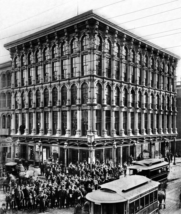 Sun Iron Building - ca. 1880-1890 - Southeast corner Baltimore Street and South Street